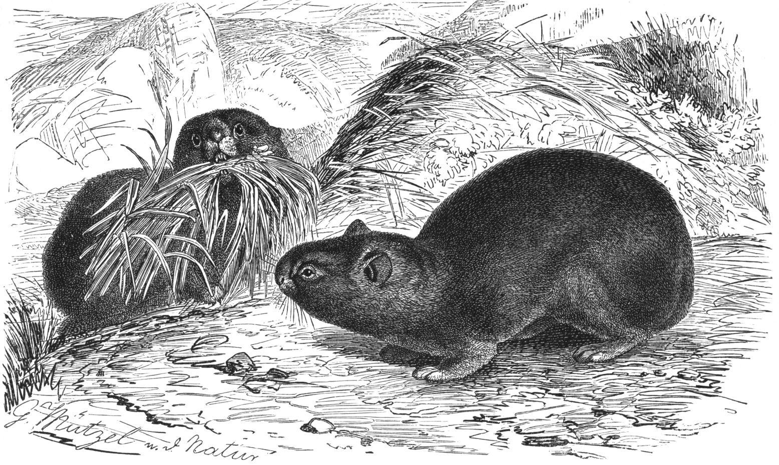 Alpine pika (Ochotona alpina). Size: 5.2 x 3.1 in² (13.2 x 7.9 cm²).